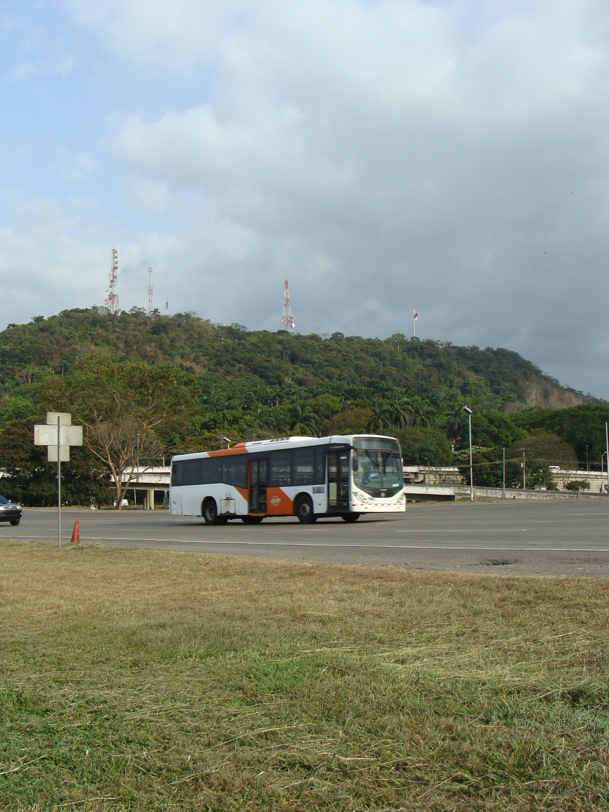 Ancon Hill seen from Omar Torrijos Herrera Avenue.